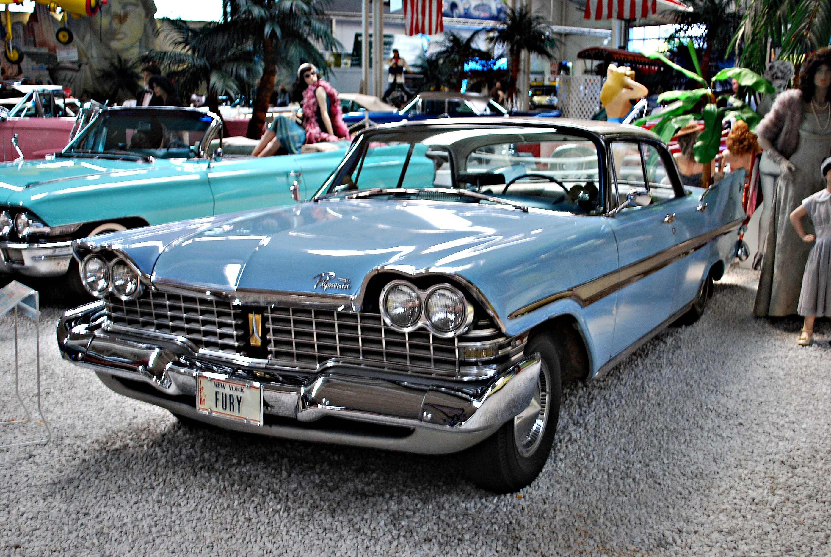 1959 Plymouth Fury at the Auto & Technik Museum, Sinsheim, 6/11.